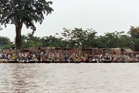 Market at the Congo River in Kisangani, Democratic Republic of Congo